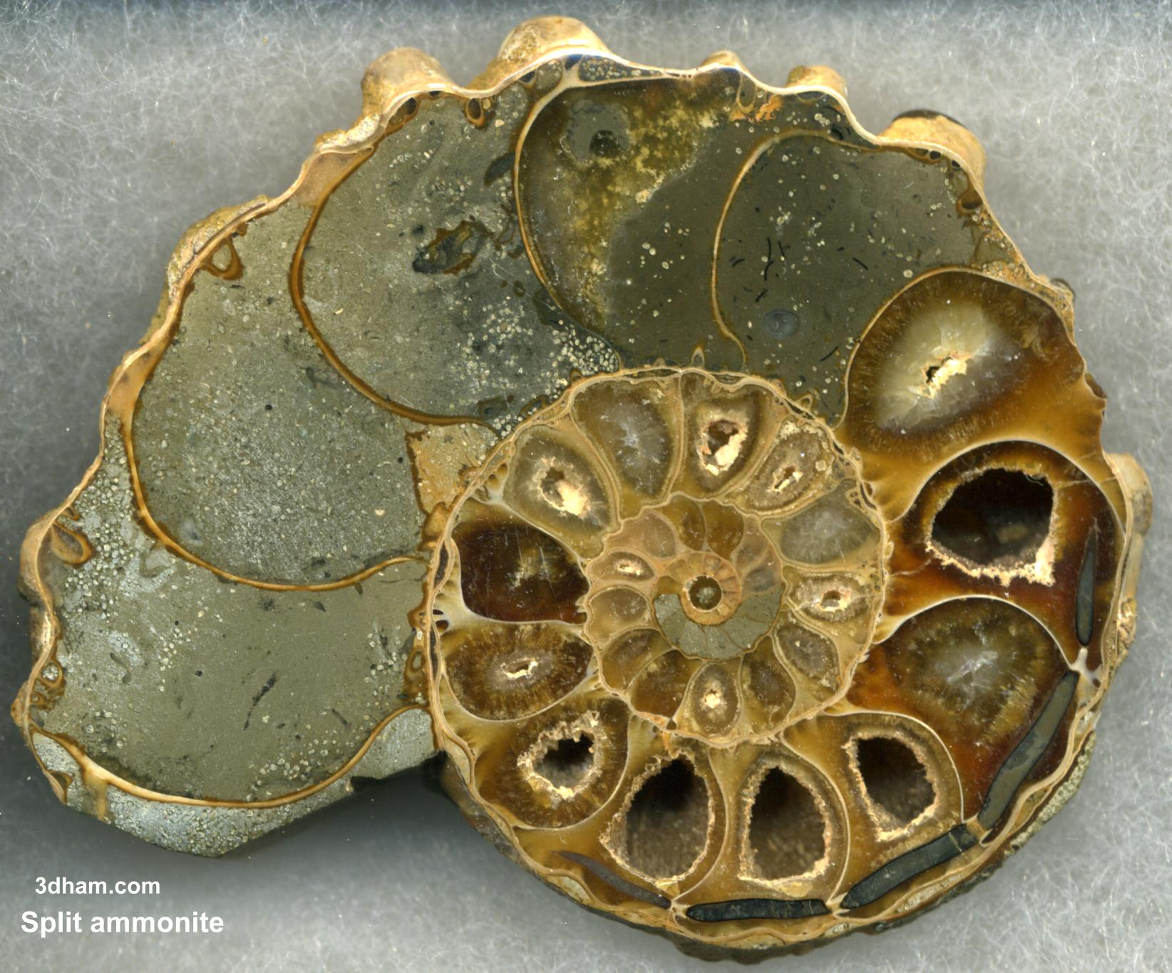 Picture of an Ammonite shell showing the septa.